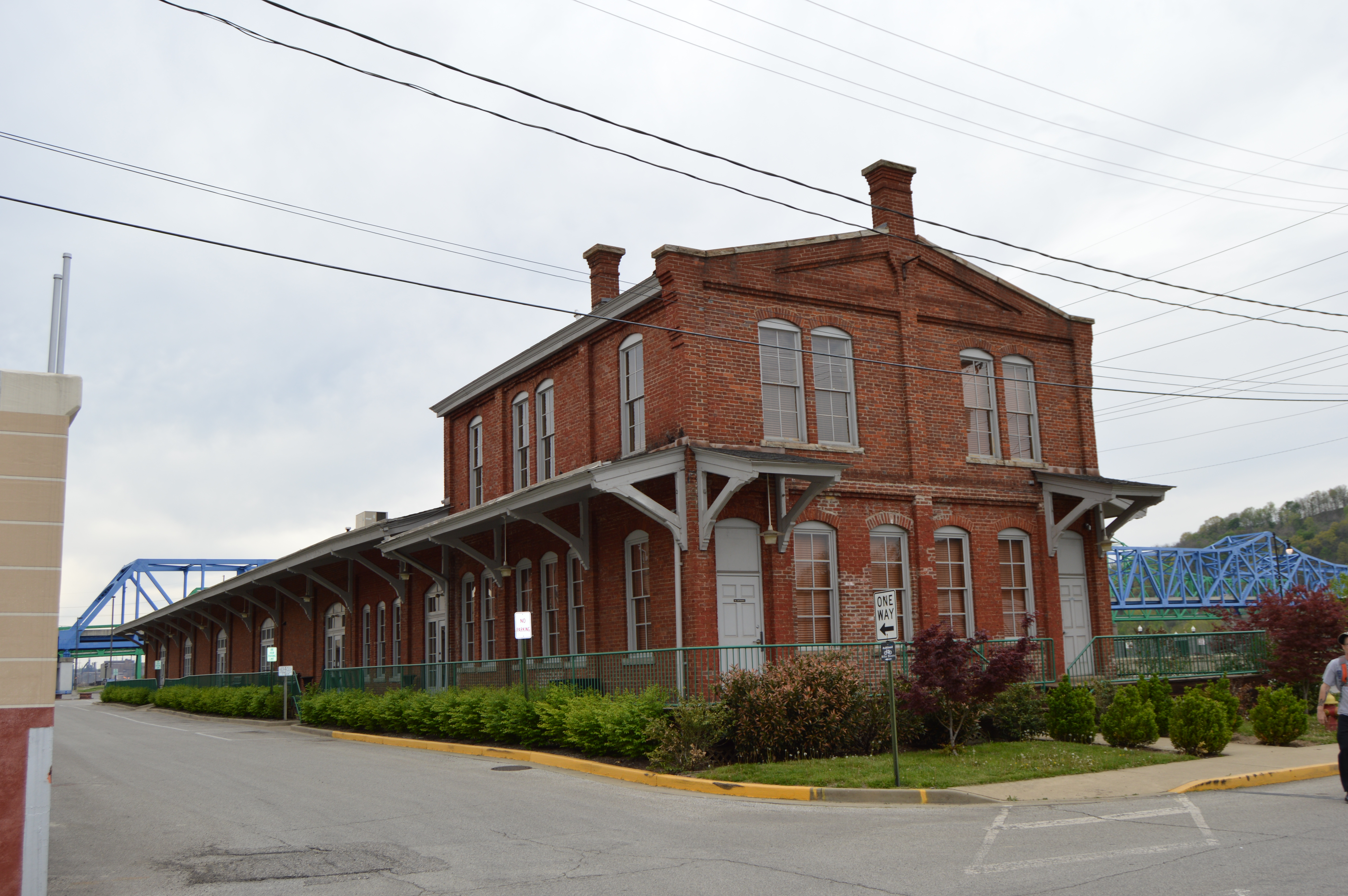 Southern side of the Ashland Amtrak station, located at 99 Fifteenth Street in Ashland, Kentucky, United States.